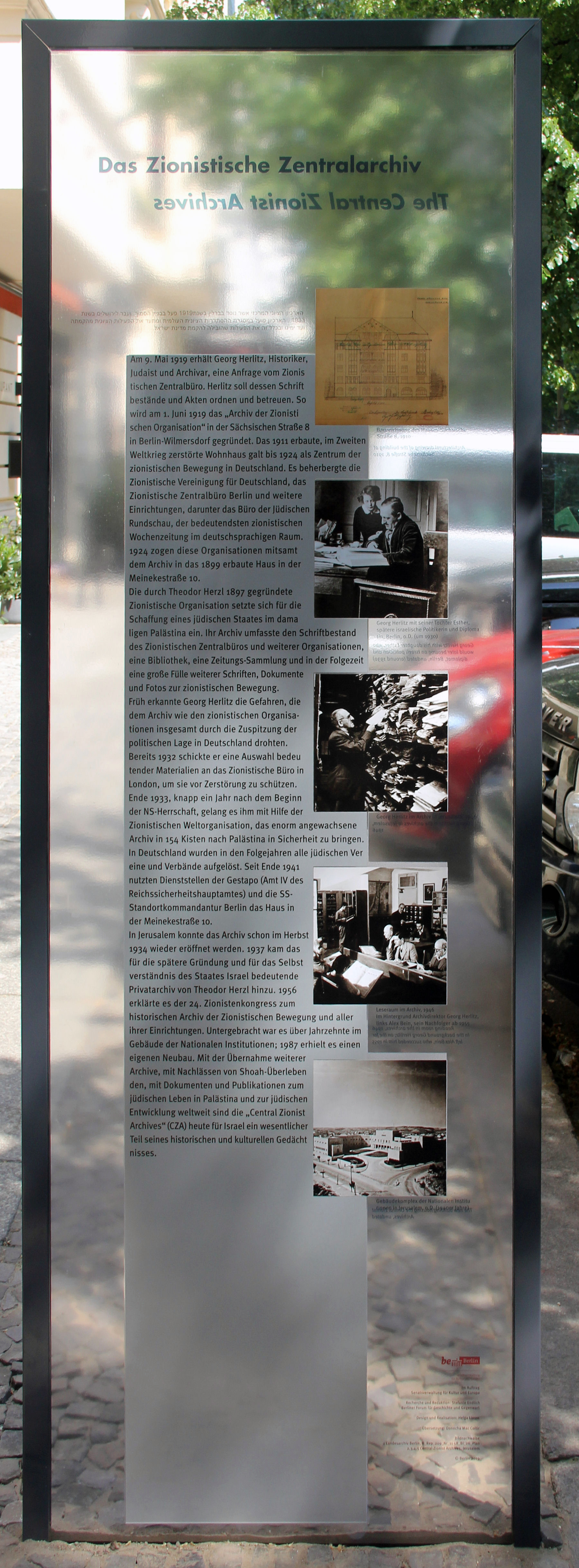 Memorial plaque, Zionistische Zentralarchiv, Meinekestraße 10, Berlin-Charlottenburg, Deutschland